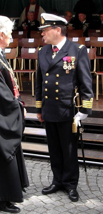 Officer Belgian Navy